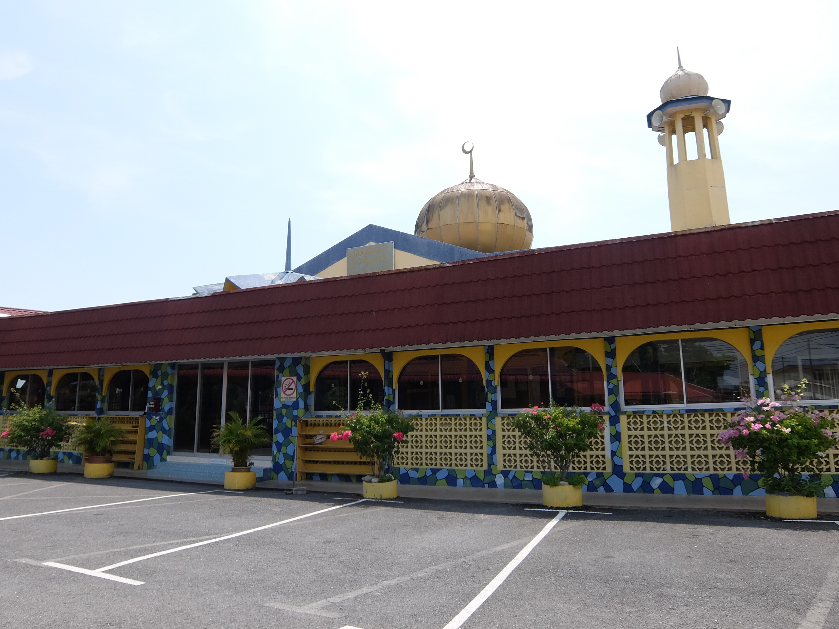 Simpang Empat Putra Mosque, Simpang Empat, Perlis, Malaysia